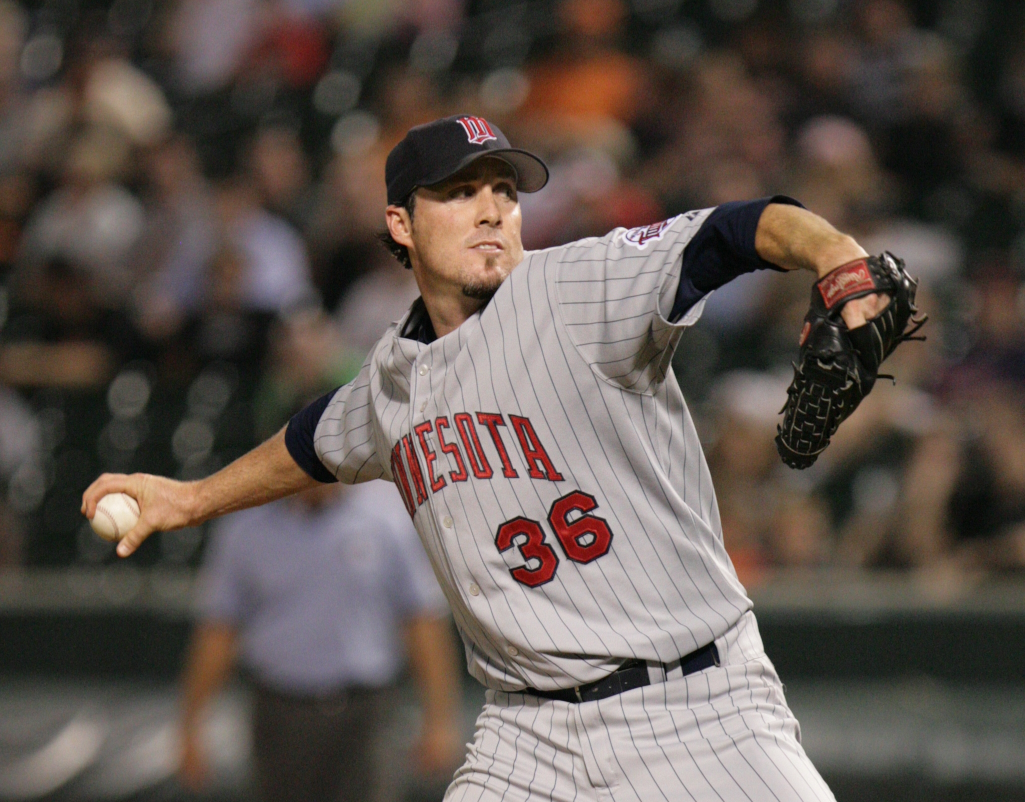 Joe Nathan